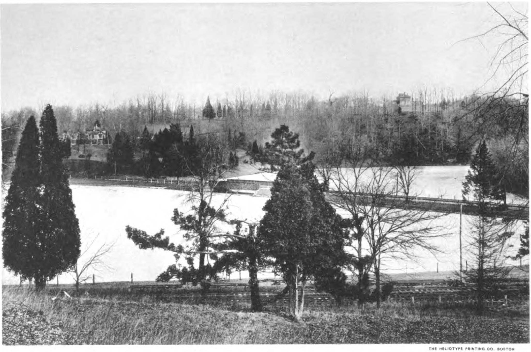 Plate II of 1898 publication called Maryland Geological Survey Volume Two, with caption "Lake Roland. Near Hollins Station, on the Northern Central Railway."